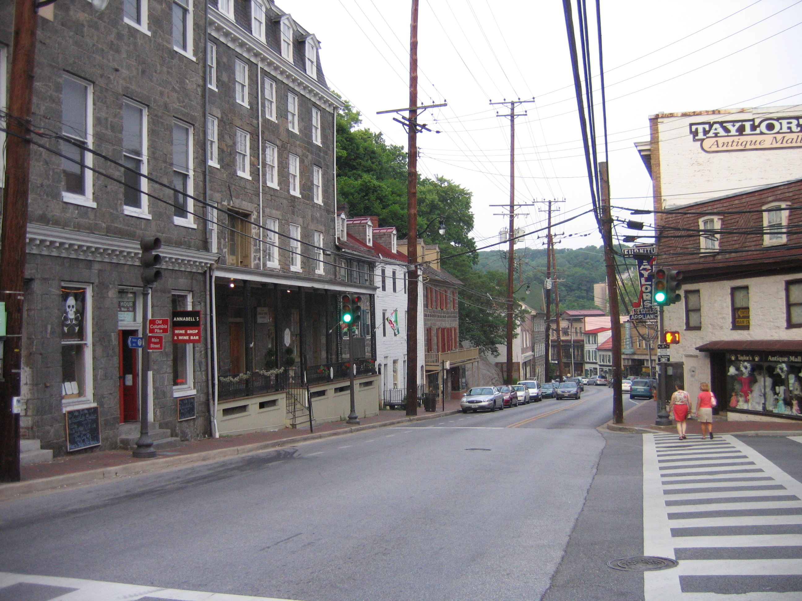 Main Street, Ellicott City, Maryland